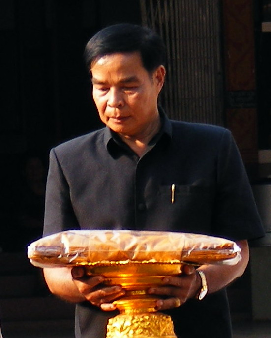 man holds the tray with pedestal adds the outer robe of a Buddhist priest.(cremation in Wat Khung Taphao, Ban Khung Taphao, Khung Taphao subdistrict, Mueang UttaraditUttaradit Province, Thailand.) on February 9, 2008.